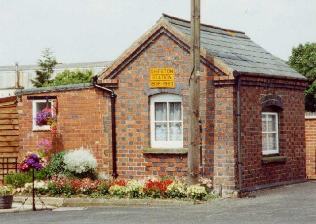 Former railway weighbridge office at Shipston-on-Stour. This is the only building surviving from the former railway station. It is now in the grounds of a residential property.